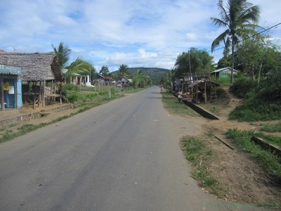 Fanambana (Sava) - ville et la route Nationale 5a